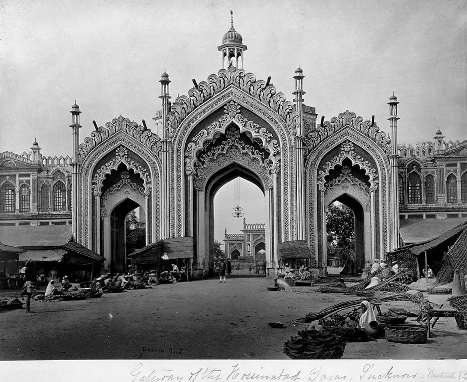 Gateway, Hussainnabad, Lucknow.